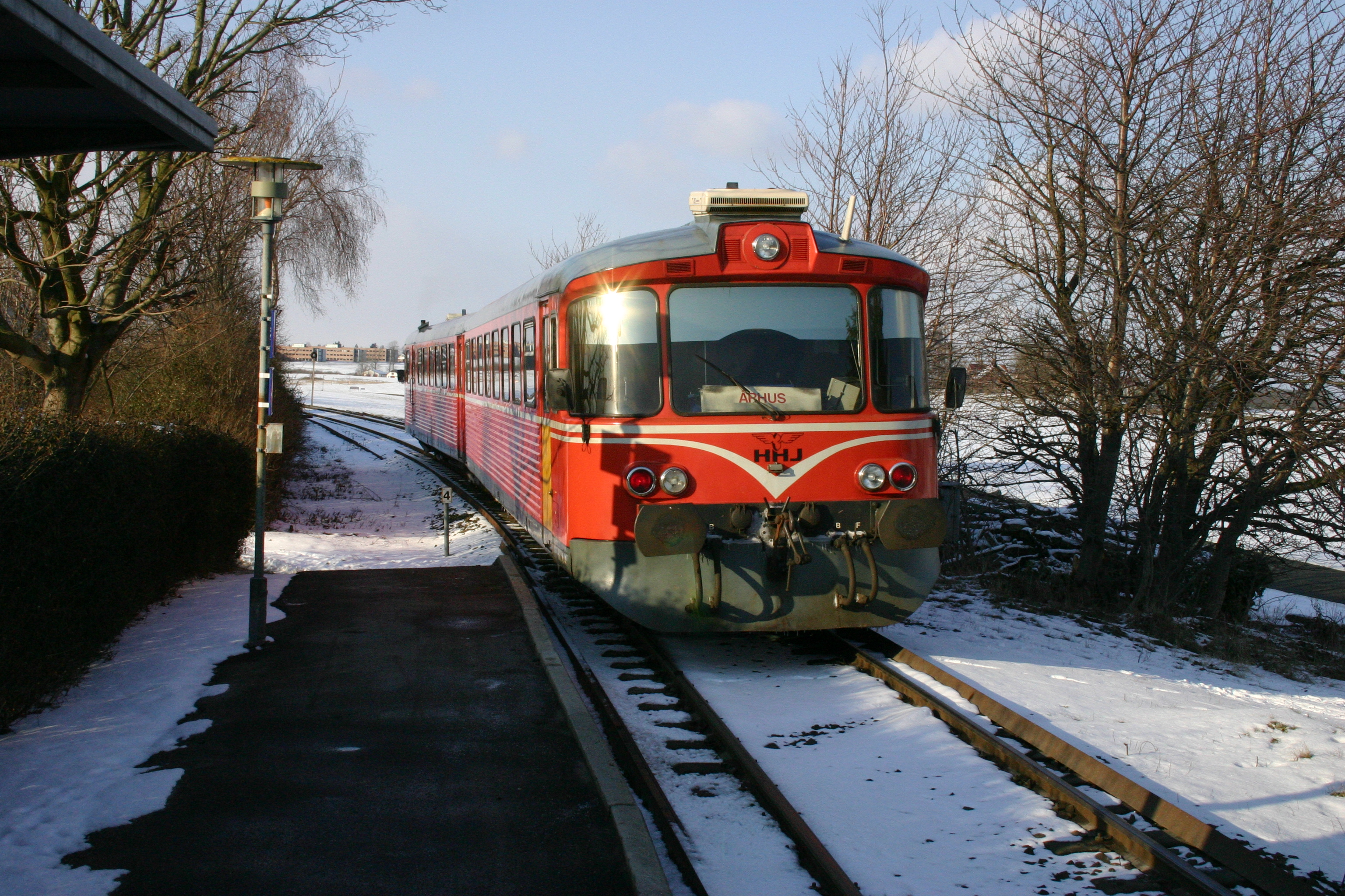 Hads-Ning Herreders Jernbane (also known as Odderbanen or Oddergrisen). Diesel train shown here at the Gunnestrup station.